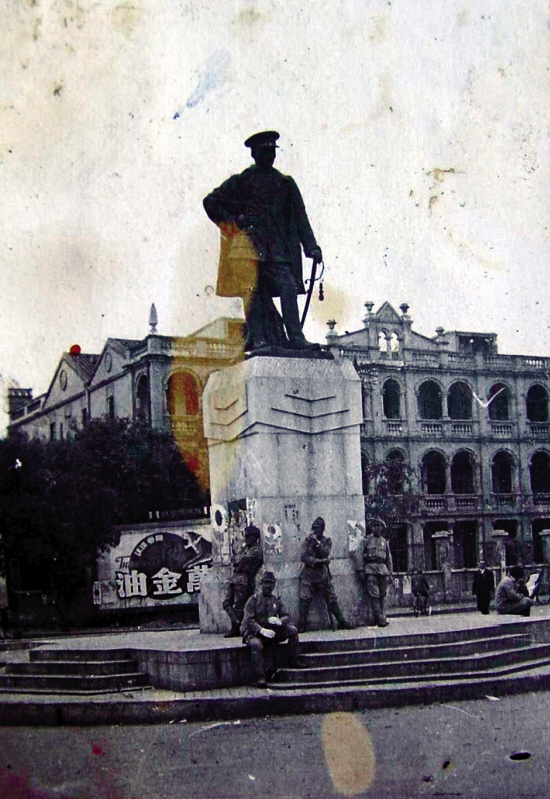 Several Japanese soldiers took photo in front of Tai-sha-tau Railway Station, Guangzhou, China, in 1938. Tiger Balm advertisement in the background. 粵語: 1938年，廣州淪陷後，幾個日軍軍人喺廣九車站（大沙頭站）前邊嘅鄧仲元銅像腳下留影